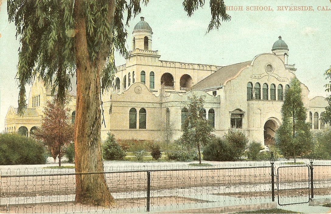 Color enhanced photograph of the Girls Highschool in Riverside, California, ca. 1915.